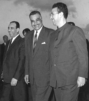 President Abdul Salam Arif of Iraq (left), President Gamal Abdel Nasser of Egypt (center) and President Ahmed Ben Bella of Algeria (right). Nasser was receiving them for the 1964 Arab League Summit